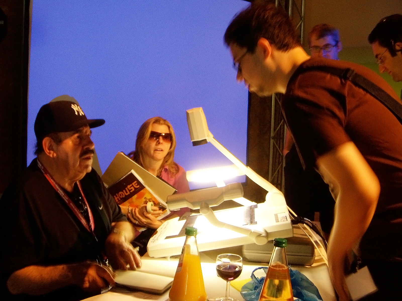 The graphic designer Ed Benguiat (left) speaking at a conference in 2008.